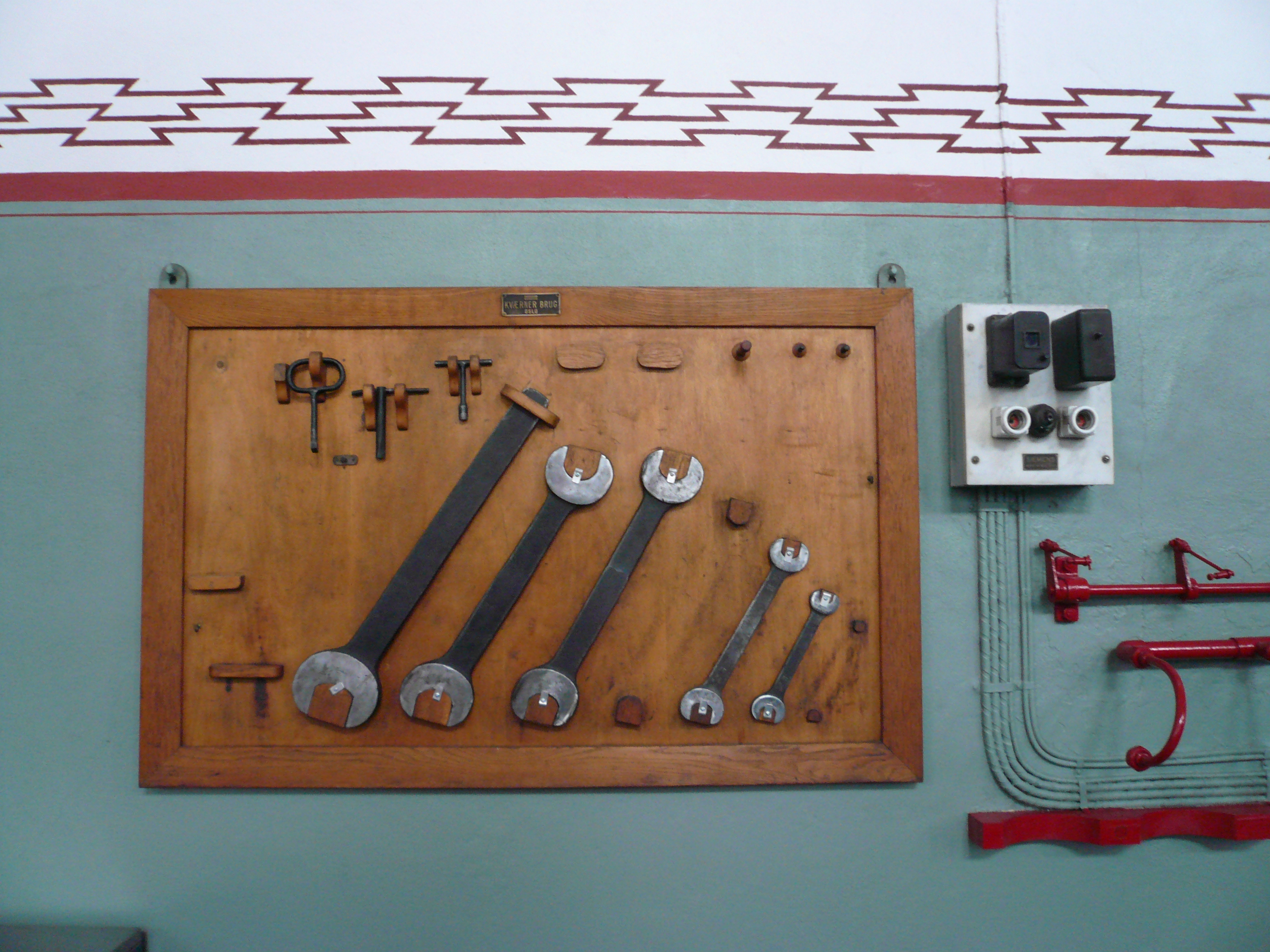 Tyssedal hydroelectric powerplant, wall mounted tools.